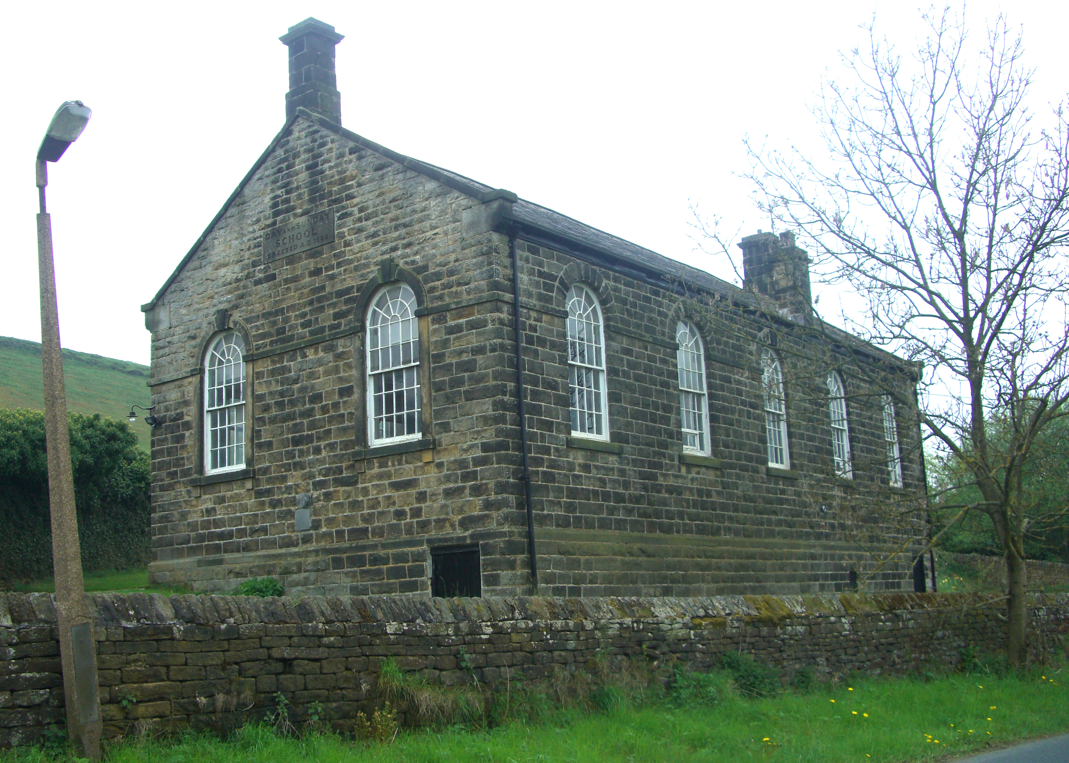 Underbank school on Stopes Road, Stannington, Sheffield. A Grade II listed building.